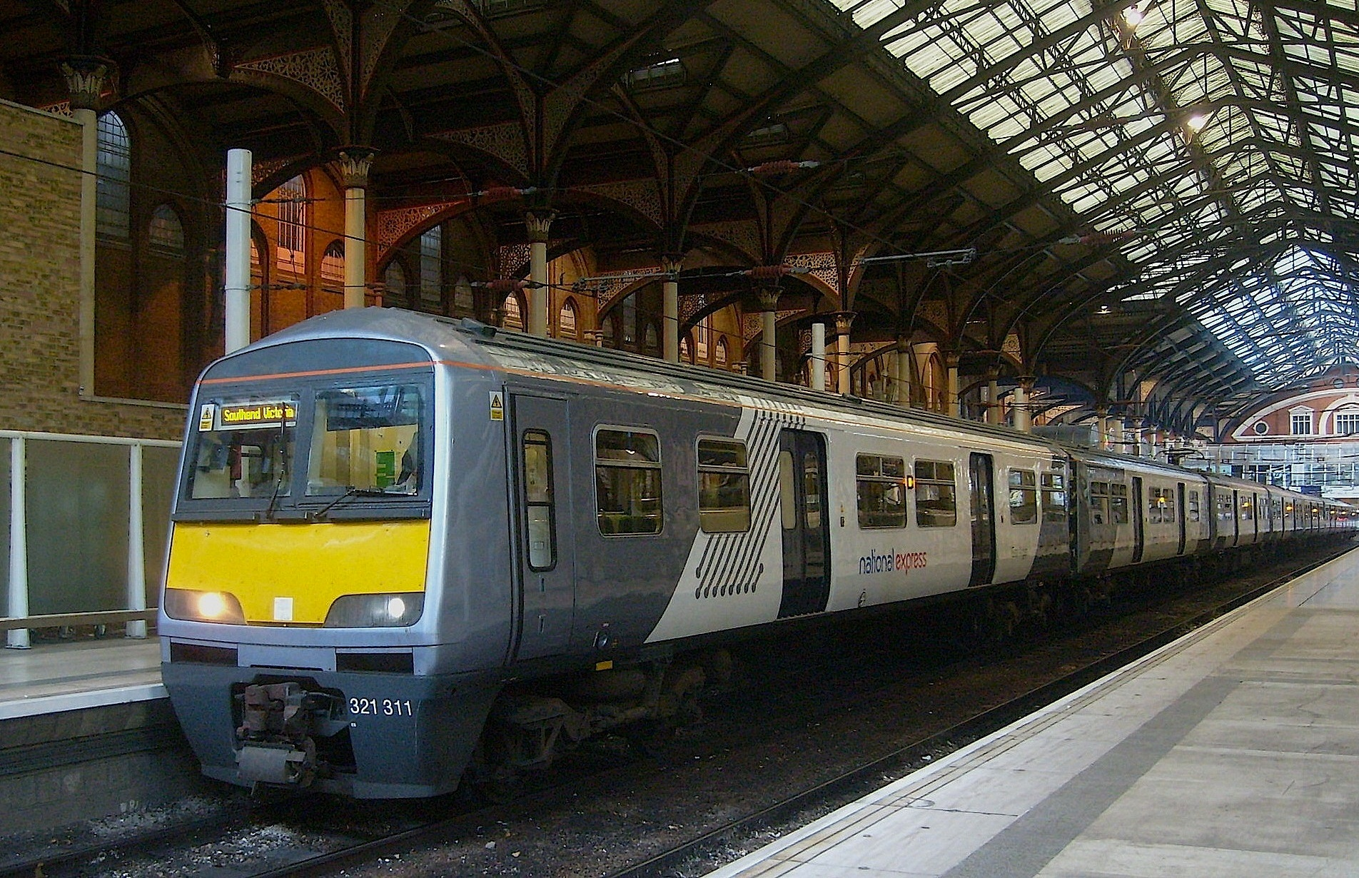 Recently reliveried into the national express 'Connextions' livery is Class 321/3 No. 321311 at London Liverpool Street